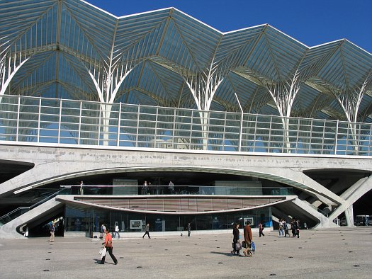 Oriente train station, Lisbon, Portugal